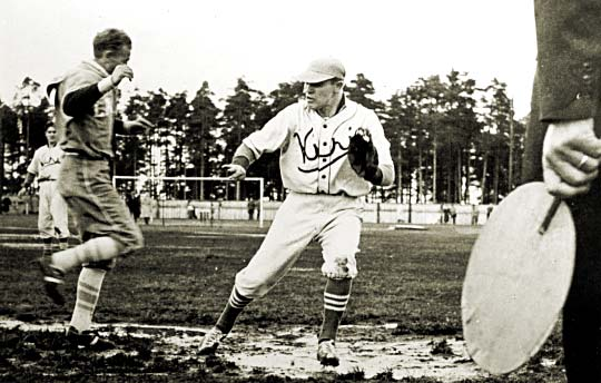 Pesäpallo championship match between Jyväskylän Kiri and Lahden Mailaveikot in 1953